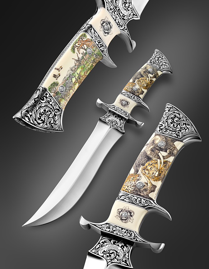 Full Integral Art Knife by Edmund Davidson